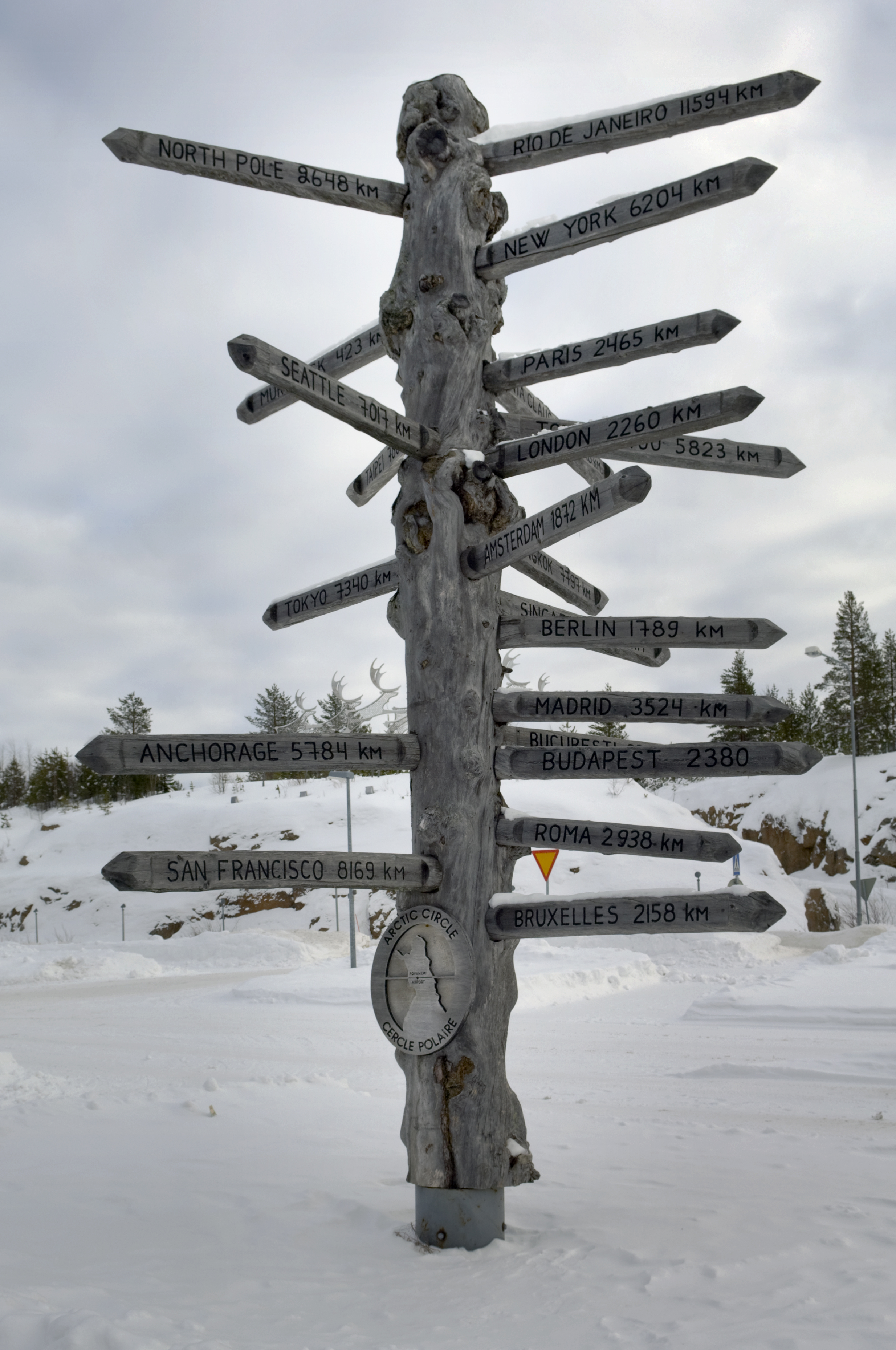 A distance pole at the forecourt of Rovaniemi Airport in Lapland, Finland. The distances (in kilometers) in the pole are listed below. Some of the listed distances are not visible in this photograph. Amsterdam 1872 Anchorage 5784 Bangkok 7797 Beijing 6077 Berlin 1789 Bruxelles 2158 Bucuresti 2900 Budabest 2380 Lapp Kota 0.2 London 2260 Madrid 3524 Moscow 1367 Murmansk 423 New York 6204 North Pole 2648 Paris 2465 Rio De Janeiro 11594 Roma 2938 San Francisco 8169 Santa Claus Village 1.8 Seattle 7017 Singapore 9394 Taipei 7804 Tokyo 7340 Tombouctou 5823